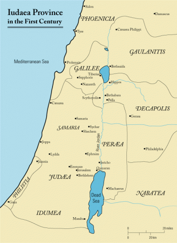 Picture of Map